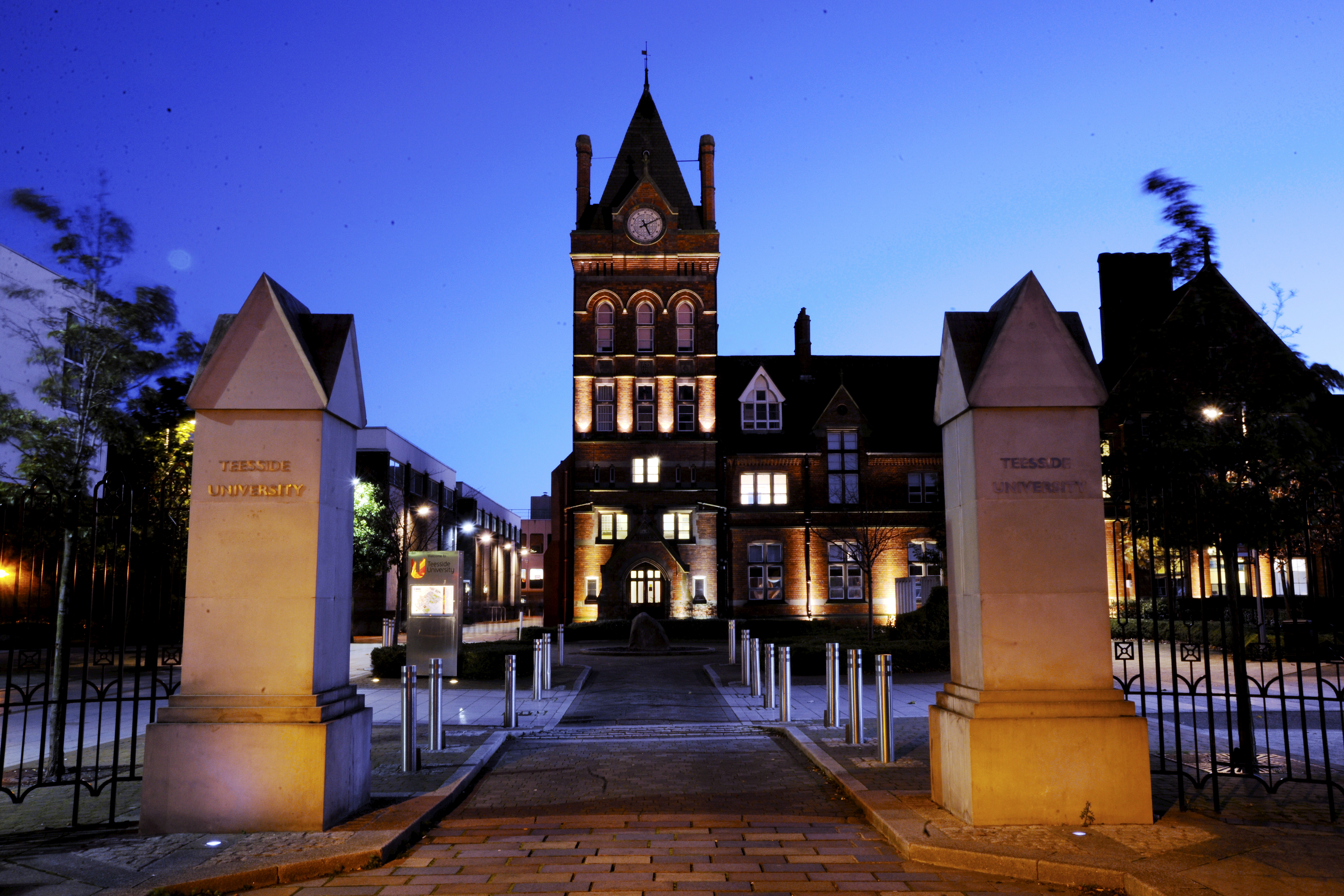 Campus, front entrance, Waterhouse Building, gates, night, gateway